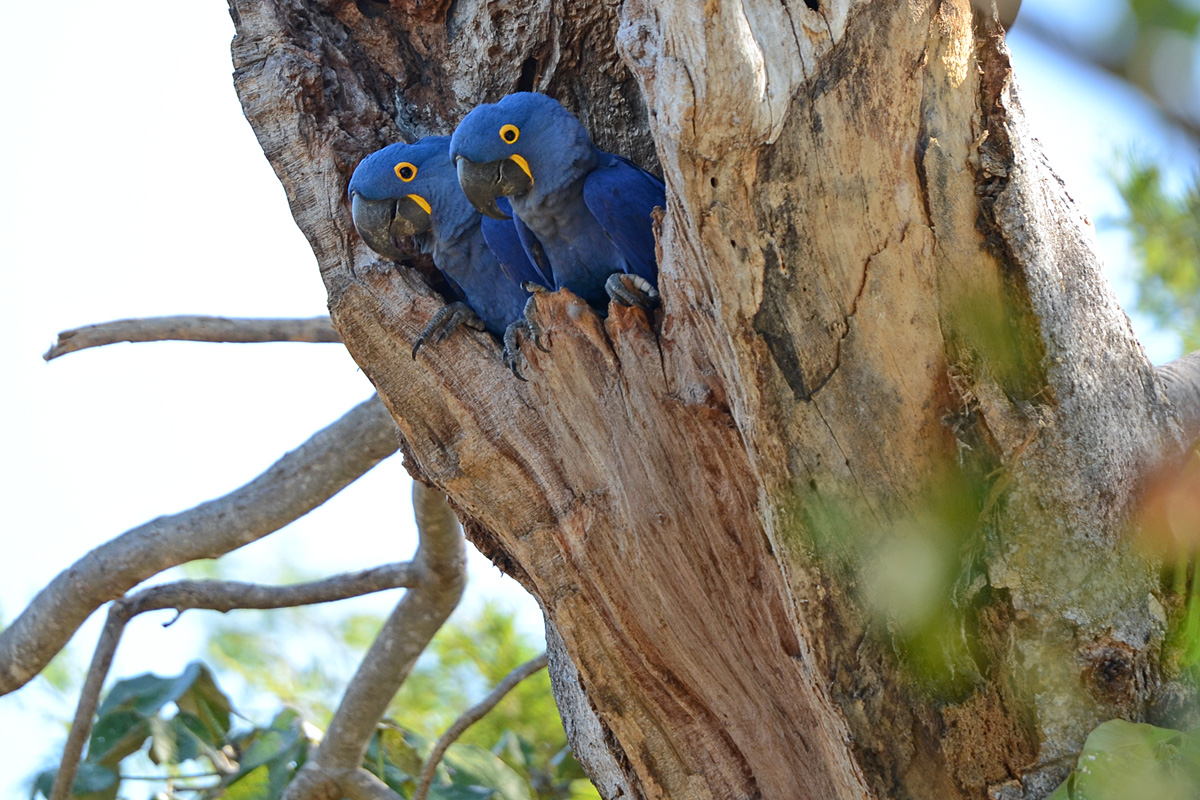 A pair of Hyacinth Macaws and their nest in Mato Grosso do Sul, Brazil.